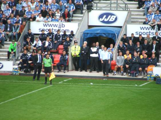 Digital Camera Shot - Author